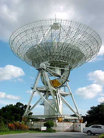 NASDA(present-day "JAXA") Okinawa Tracking and Communication Station